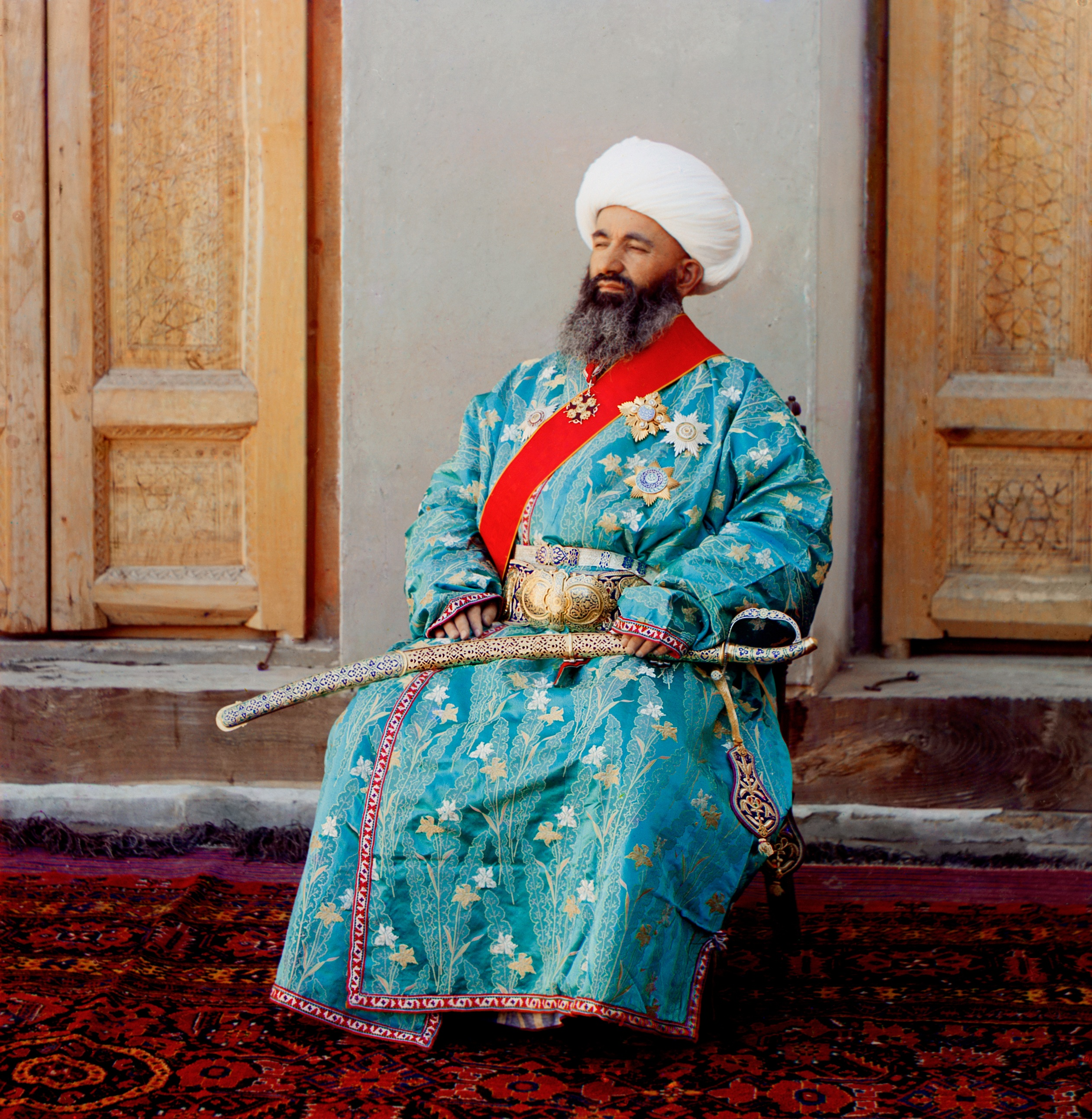 Kush-Beggi (Minister of the Interior). Bukhara